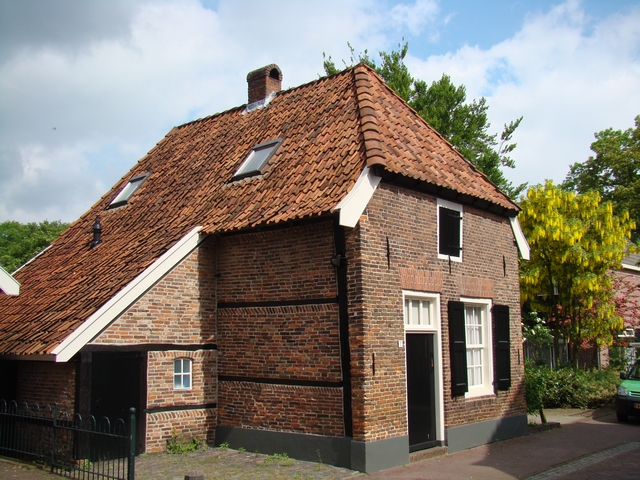 "Kuupershuusken" monumental house in Bredevoort, Netherlands